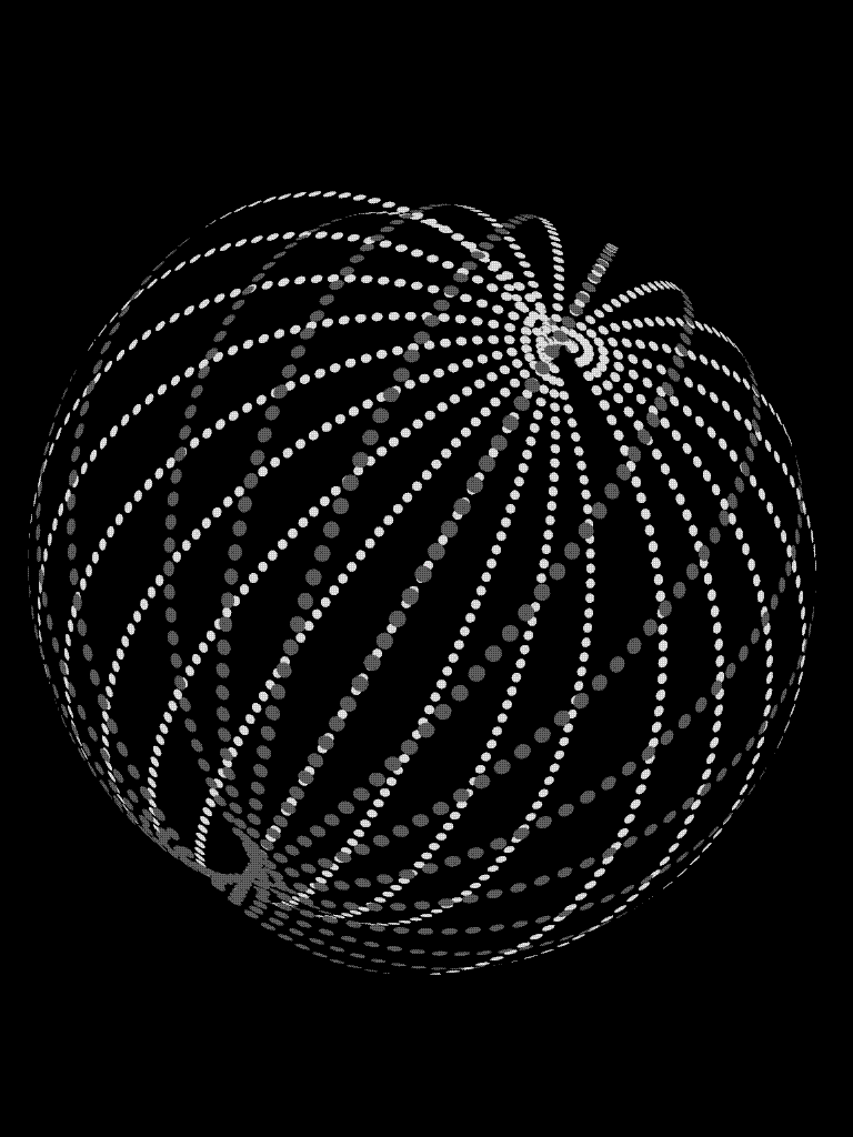 An illustration of a relativly simple arrangement of multiple Dyson rings in a more complex form of the Dyson swarm. To scale. Sun is accurately colored according to spectral type. Ring orbital radii are spaced 1.5x10ekm from one another, although the average orbital radius is 1 AU. Collectors are 1.0 x 10e km in diameter, or ~25 times the distance between the Earth and the Moon. Collectors are spaced 3 degrees from midpoint to midpoint, around the orbital circle. Camera perspective is from a point ~2.8 AU from the sun. Rings are rotated 15 degrees relative to one another, around a common axis of rotation.